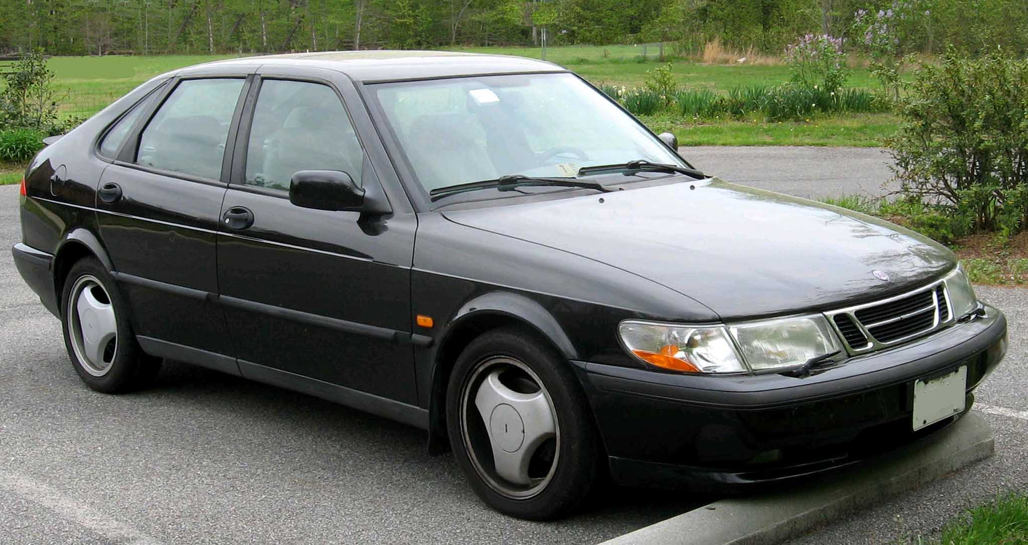 1997 Saab 900 photographed in Accokeek, Maryland, USA.